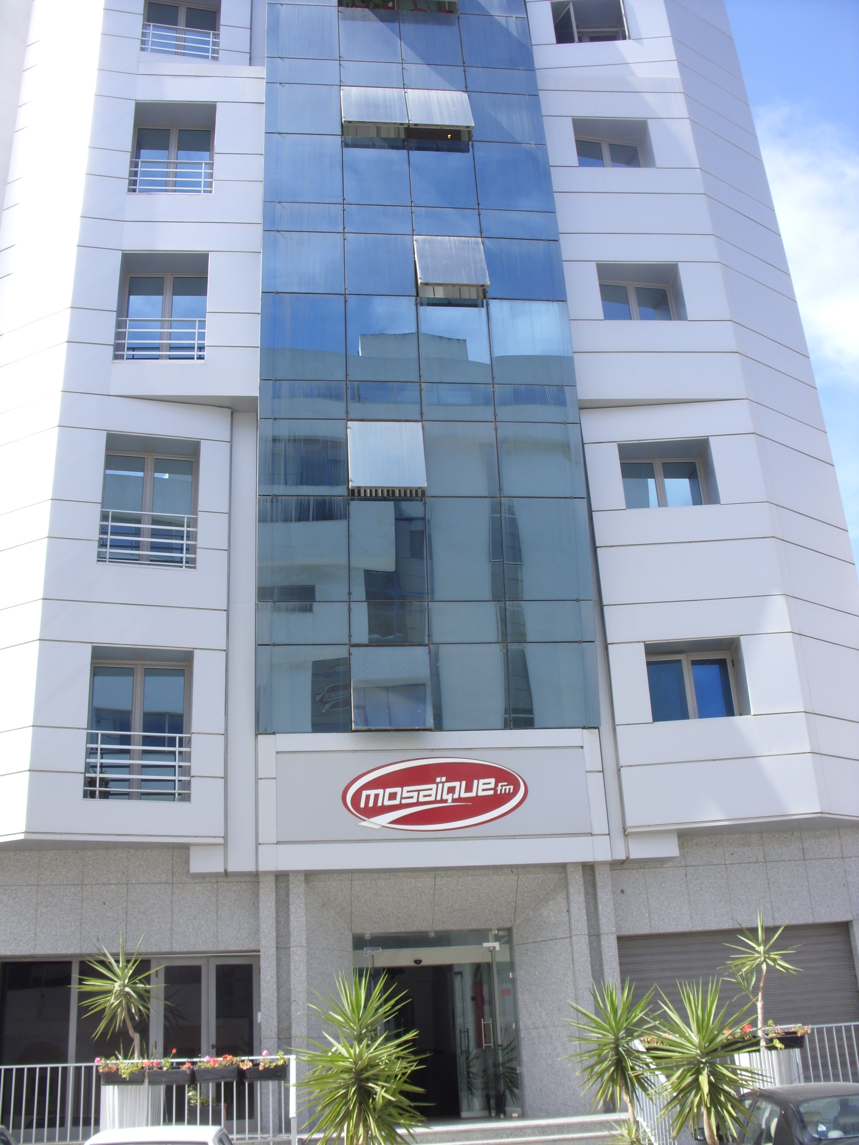 Tunisian radio Mosaique FM building